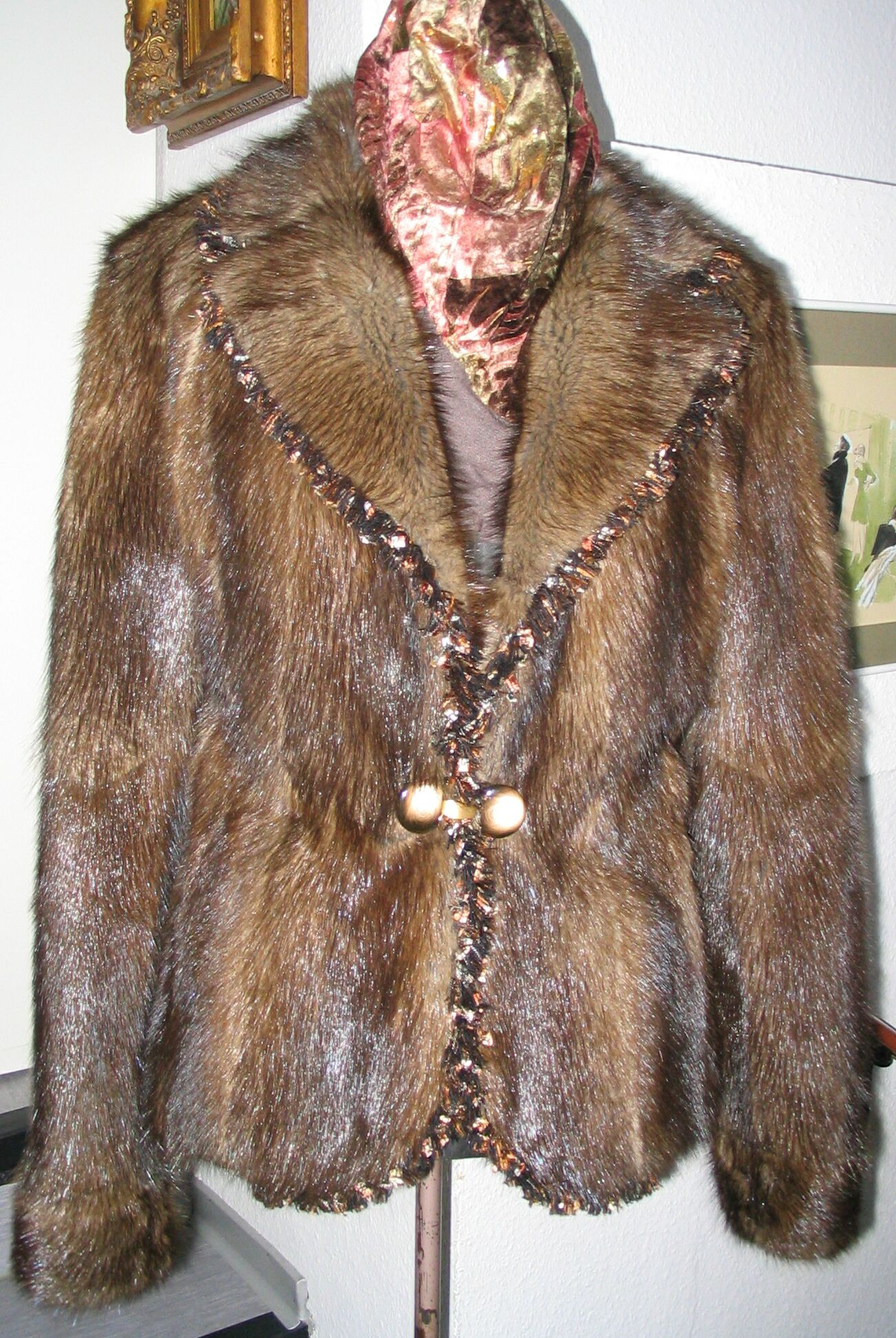 A restyled jacket from muskrat (musquash) back skins